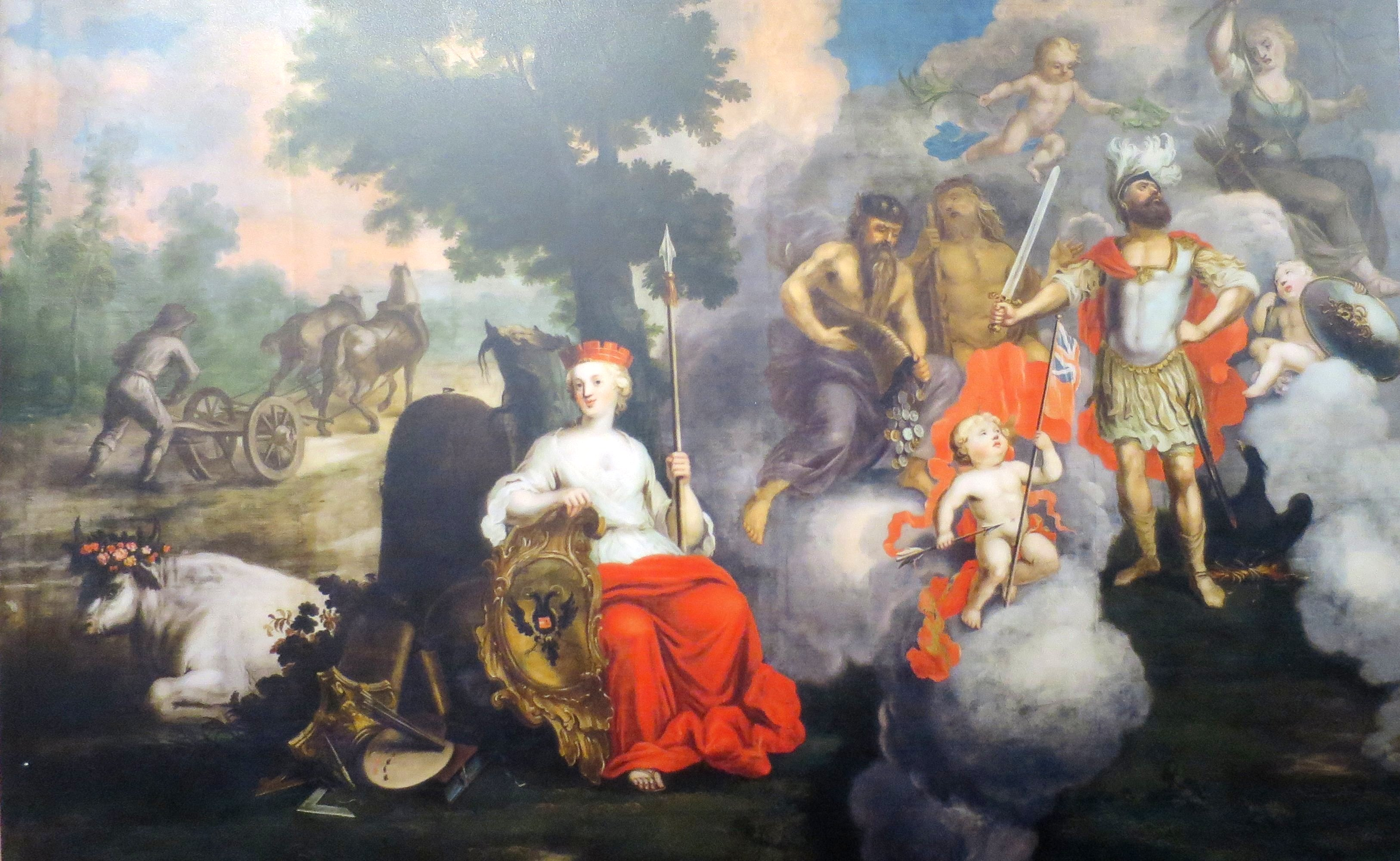 War and Peace by Mathias Blumenthal, 1760, The Blumenthal Room, Rasmus Meyer Collection, Bergen Kunstmuseum